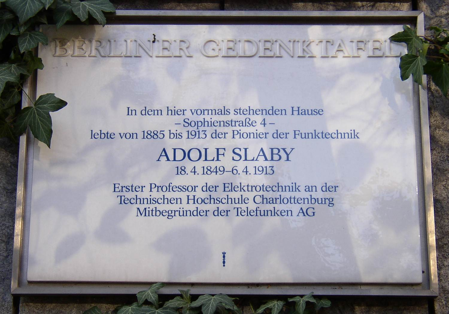 Berlin memorial plaque for Adolf Slaby in Berlin-Charlottenburg, Germany